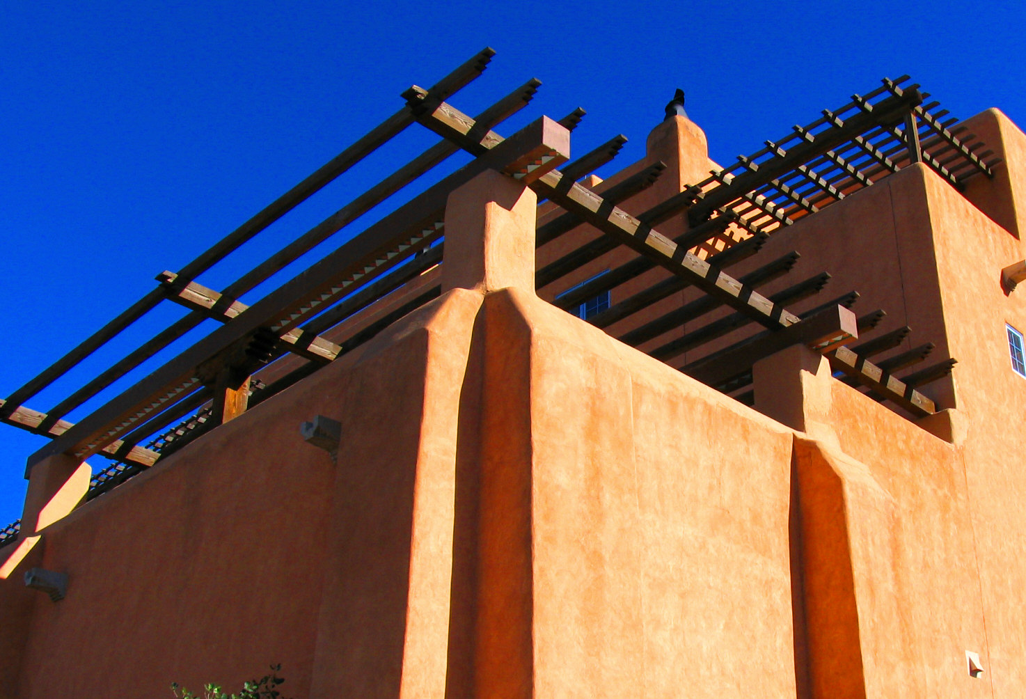 Pueblo Revival Style architecture (Southwestern style) in Santa Fe, New Mexico